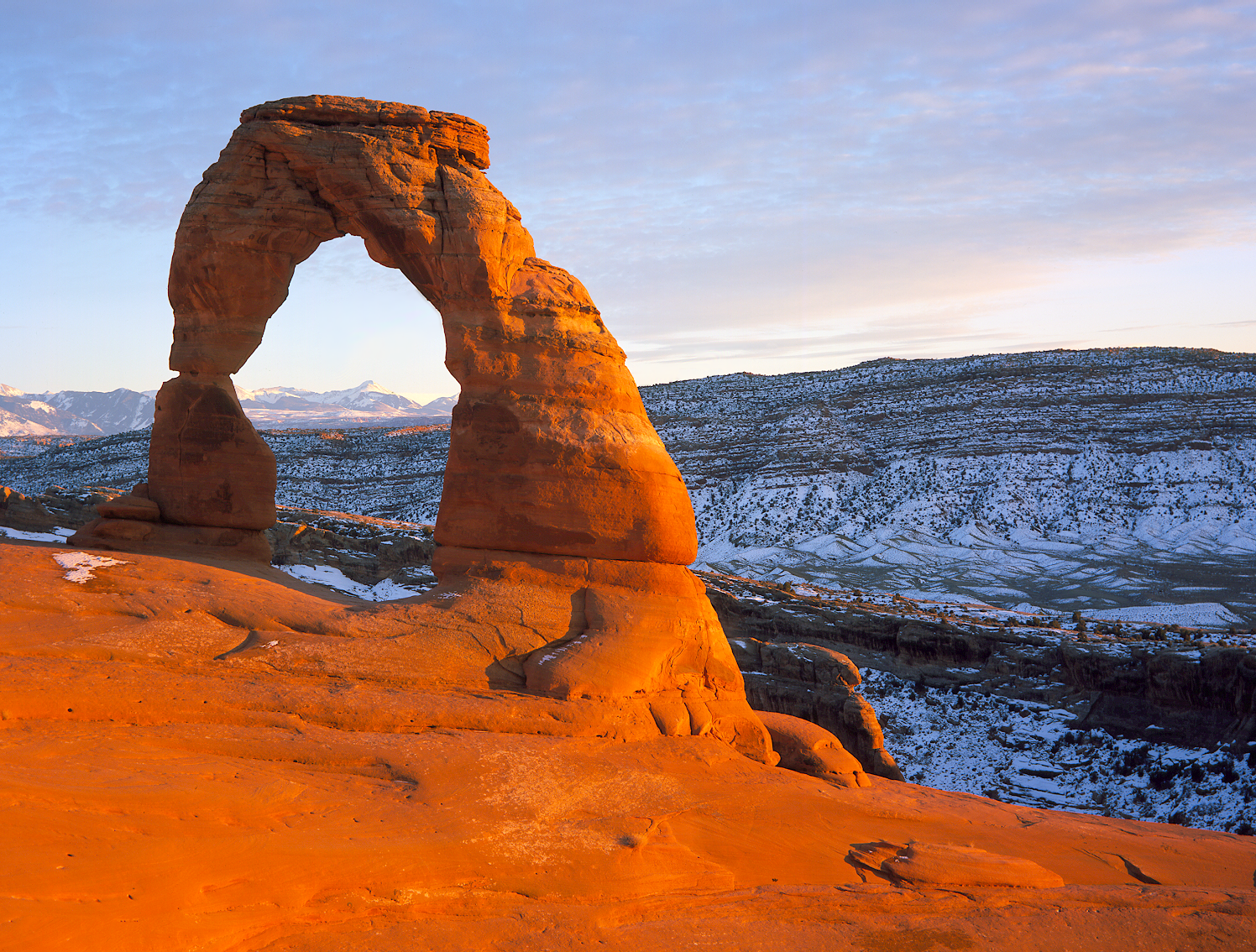 Delicate Arch in Arches National Park, in Utah.